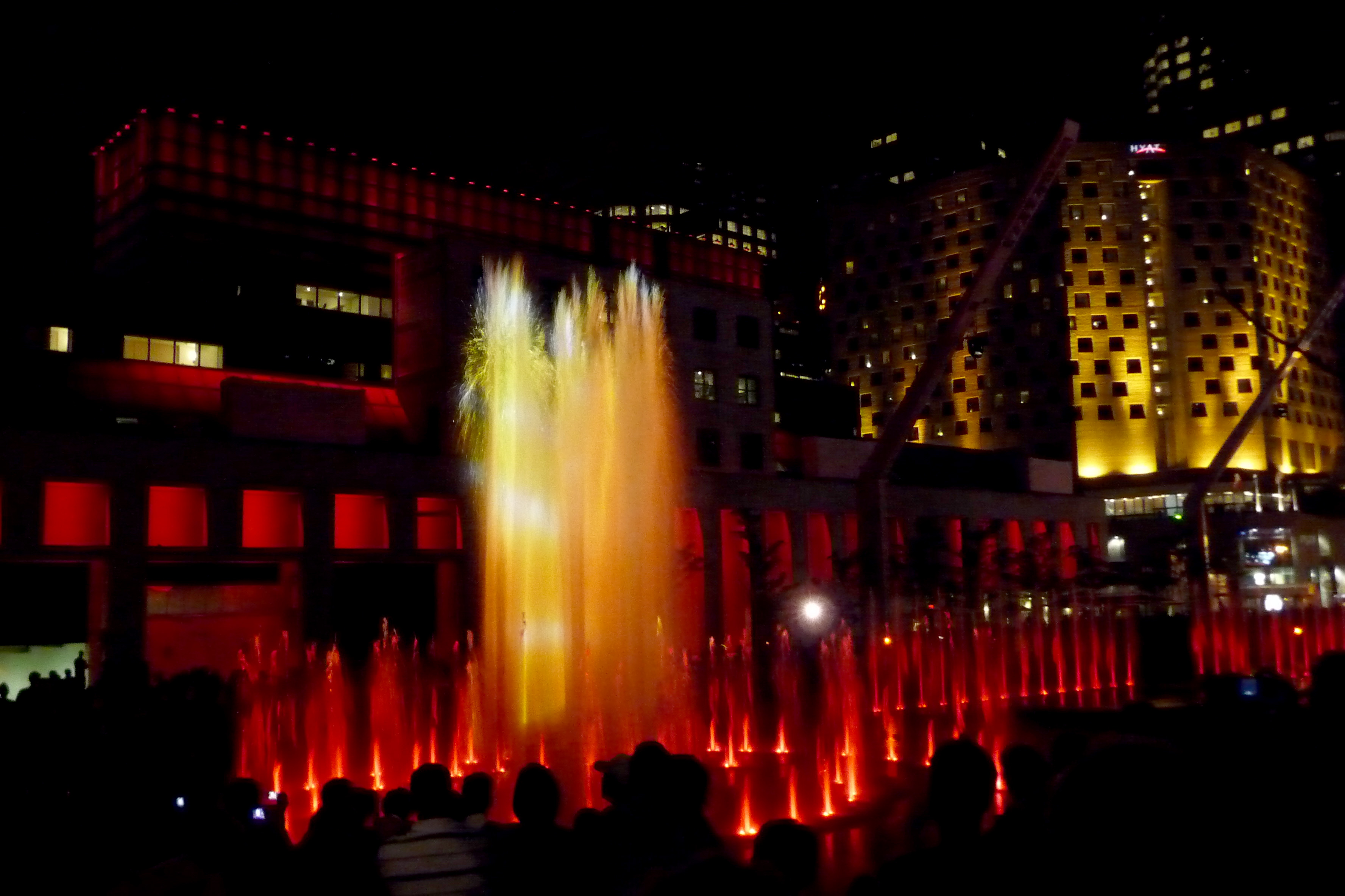 Élixir show at Place des festivals on August 2010.